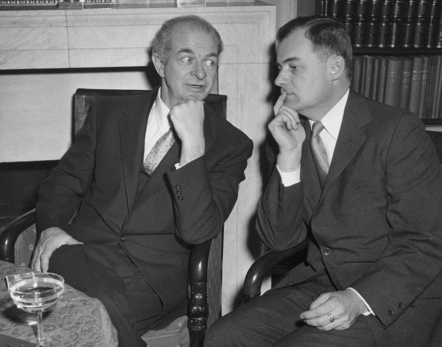 Linus Pauling (left) and Frederick C. Robbins